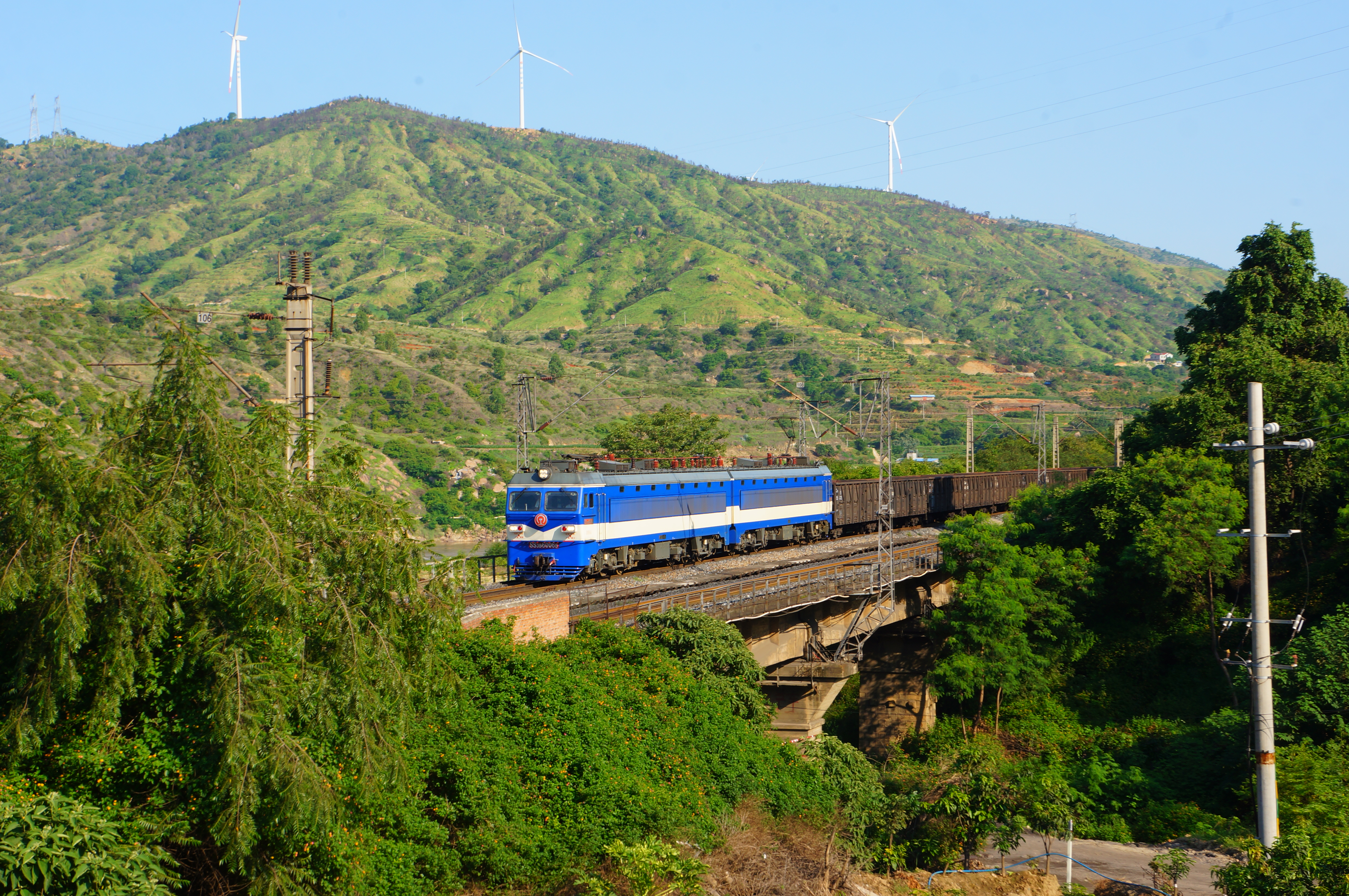 201908 SS3B-6006 hauls Freight Train Approaches to Panzhihua Station